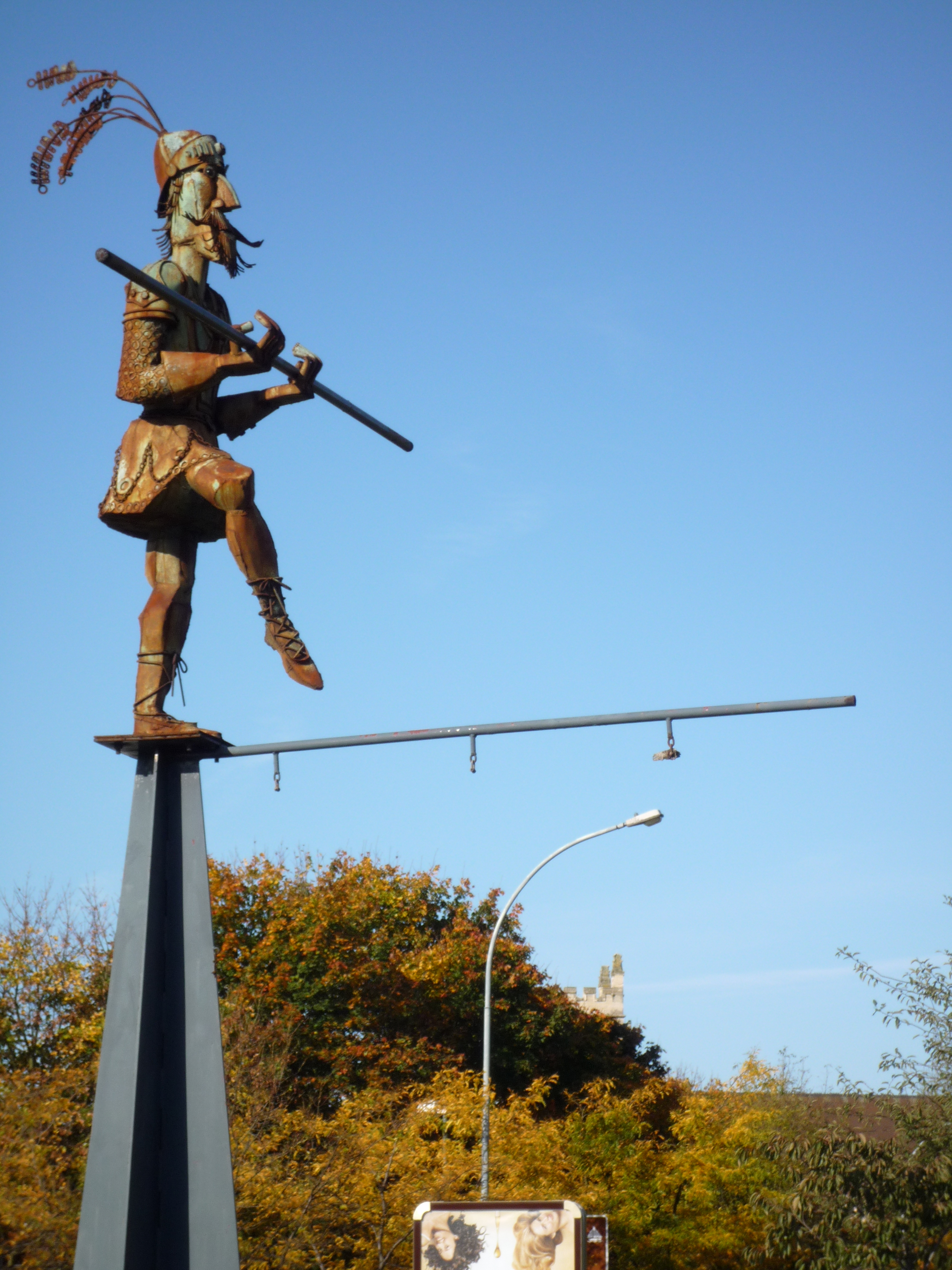 Sculpture of Charles Blondin in the Ladywood Middleway section of the Middle Ring Road in Birmingham, England. It celebrates his crossing of the Edgbaston Reservoir on a tightrope in 1873.